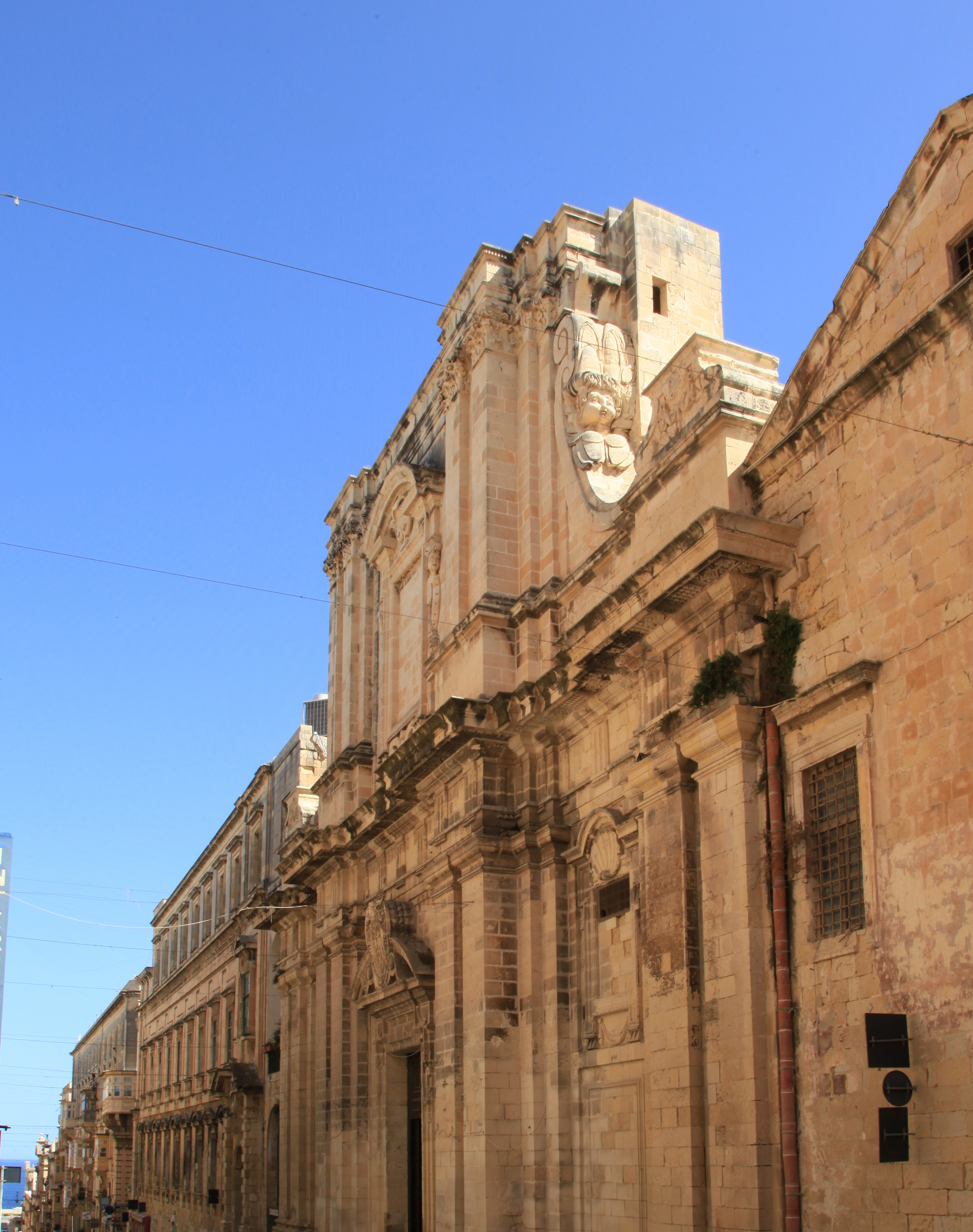 Old University Building, Valletta at the merchants' street Triq il-Merkanti in Valletta, Malta